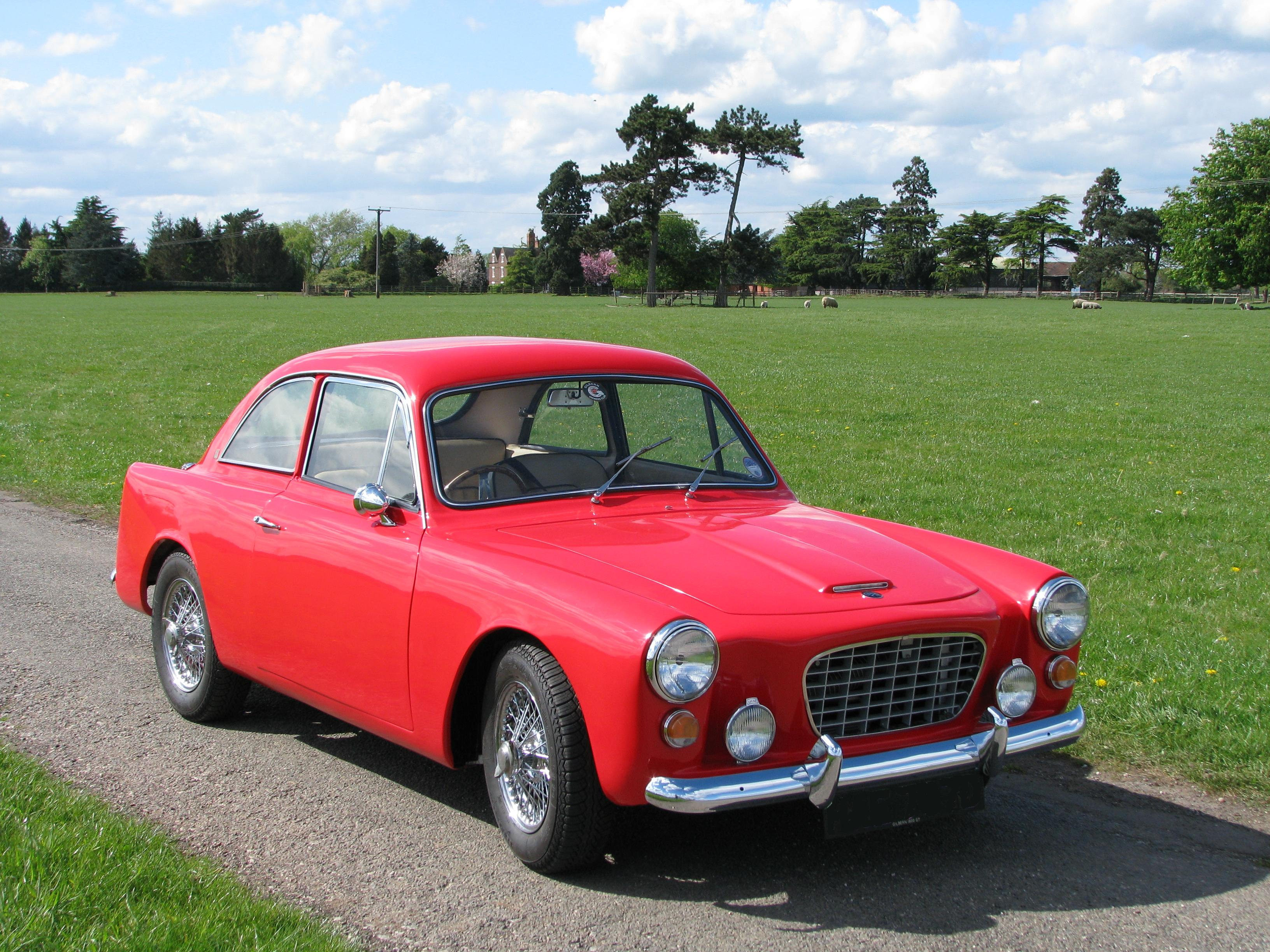 Gilbern GT1800 1966 welsh sports GT car